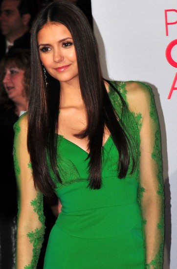 Nina Dobrev at People Choice Awards 2012